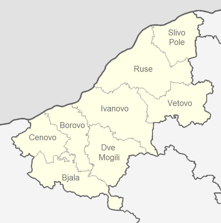 Croatian names on map of Ruse District (Bulgaria)